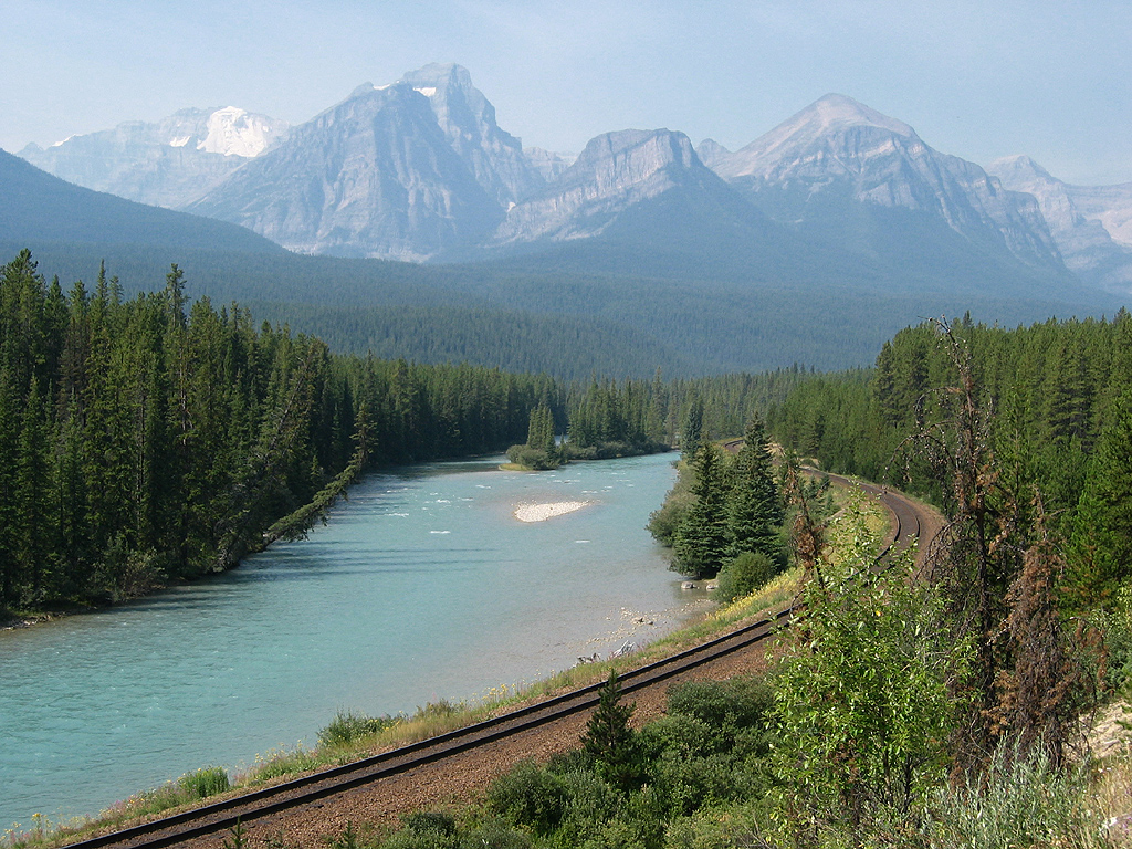 Picture taken in August 2003 from Alberta Highway 1A. Bow River cascades below as mountains from Banff National Park shadow overhead. The picture shows Morant's Curve, a popular Canadian Pacific Railroad photography spot. It appears in many railroading books and calendars, as well as older Canadian Pacific travel materials.